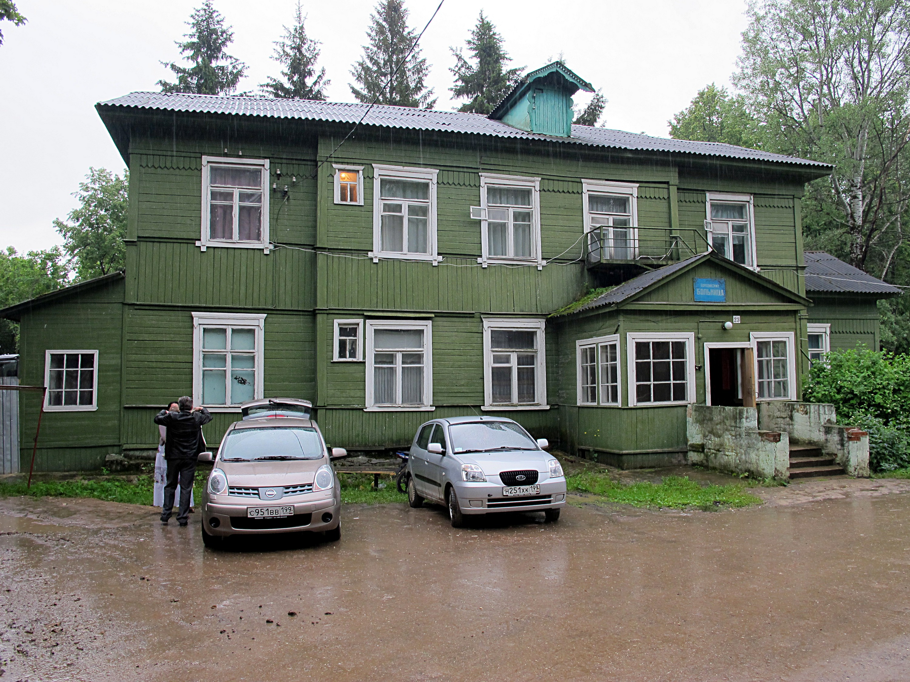 Borodino clinic (2012-06-10).